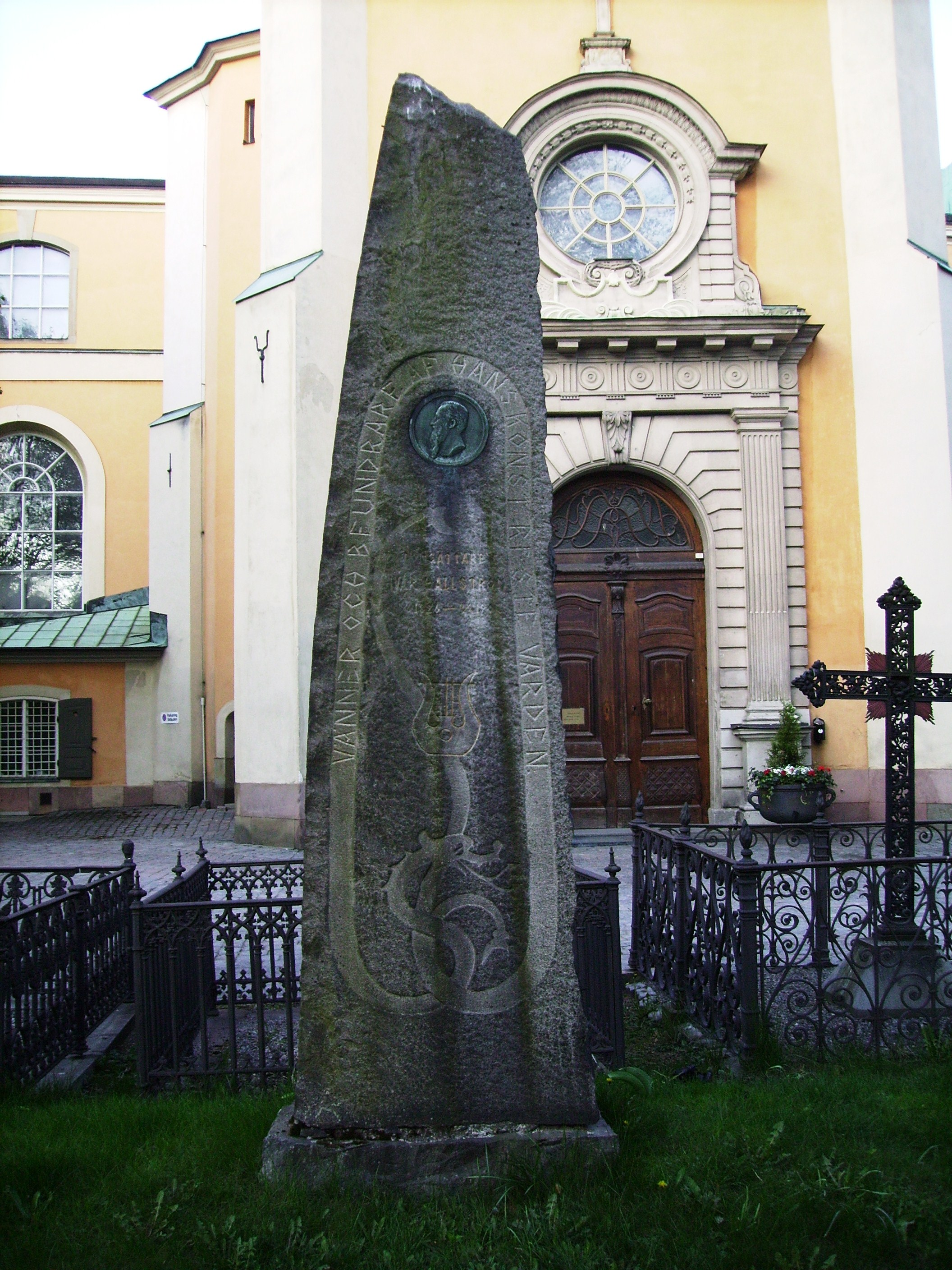 Picture of Ivar Hallströms grave at Maria Magdalena churchyard in Stockholm